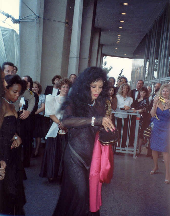 Diana Ross at the 62nd Academy Awards